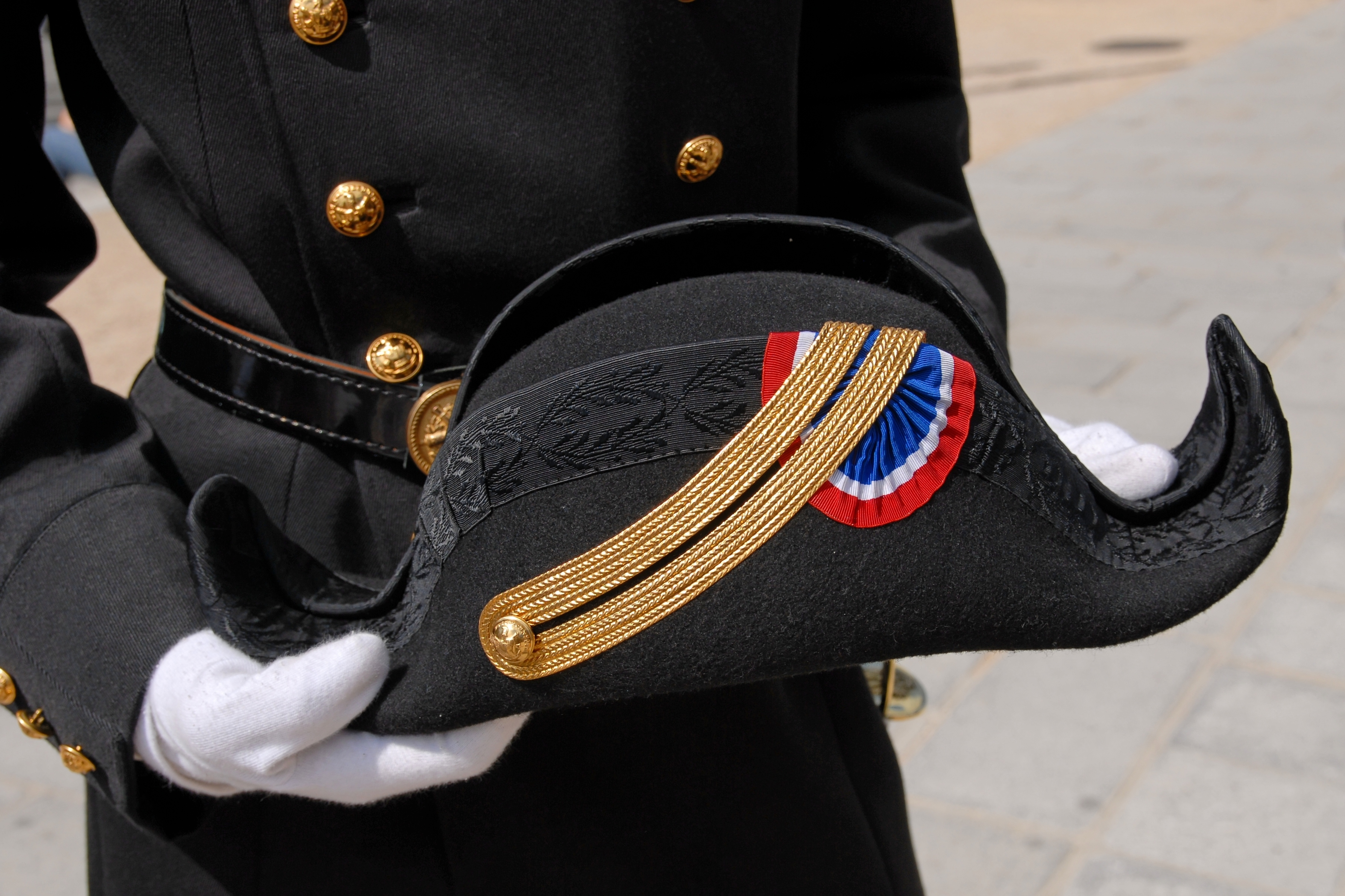 Student of the École polytechnique in dress uniform, holding his bicorne hat, during the ceremonies of Bastille Day 2007.